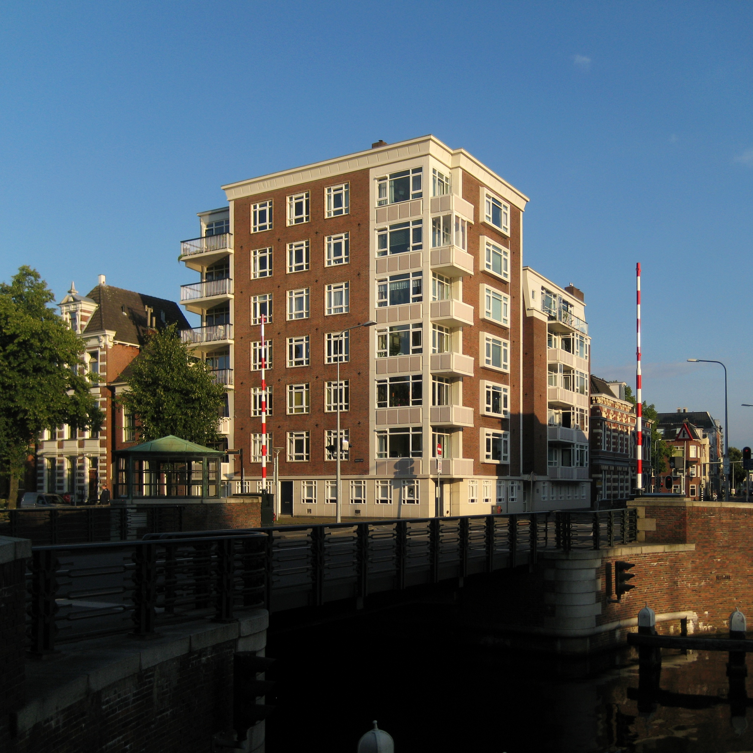 The Plantsoenflat, an apartment building (1950) in the Dutch city of Groningen.